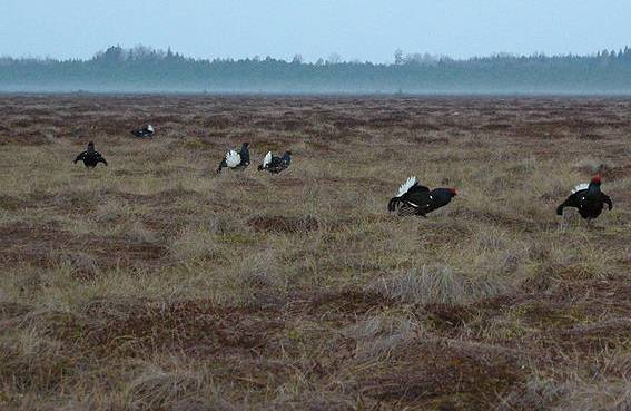 Cropped pic to better illustrate lek mating